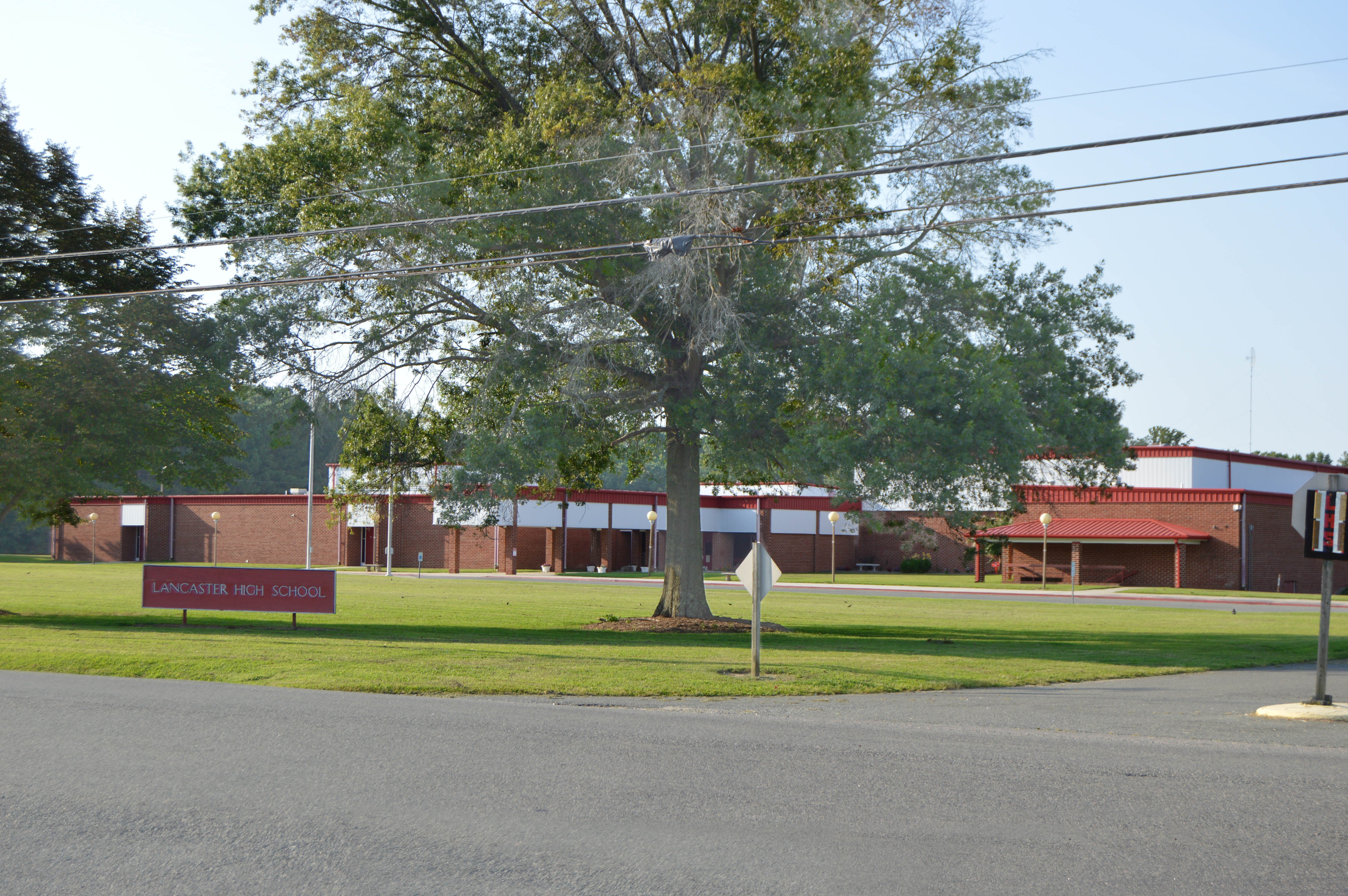 Front of Lancaster High School, located on State Route 3 at Lancaster Courthouse in Lancaster County, Virginia, United States.